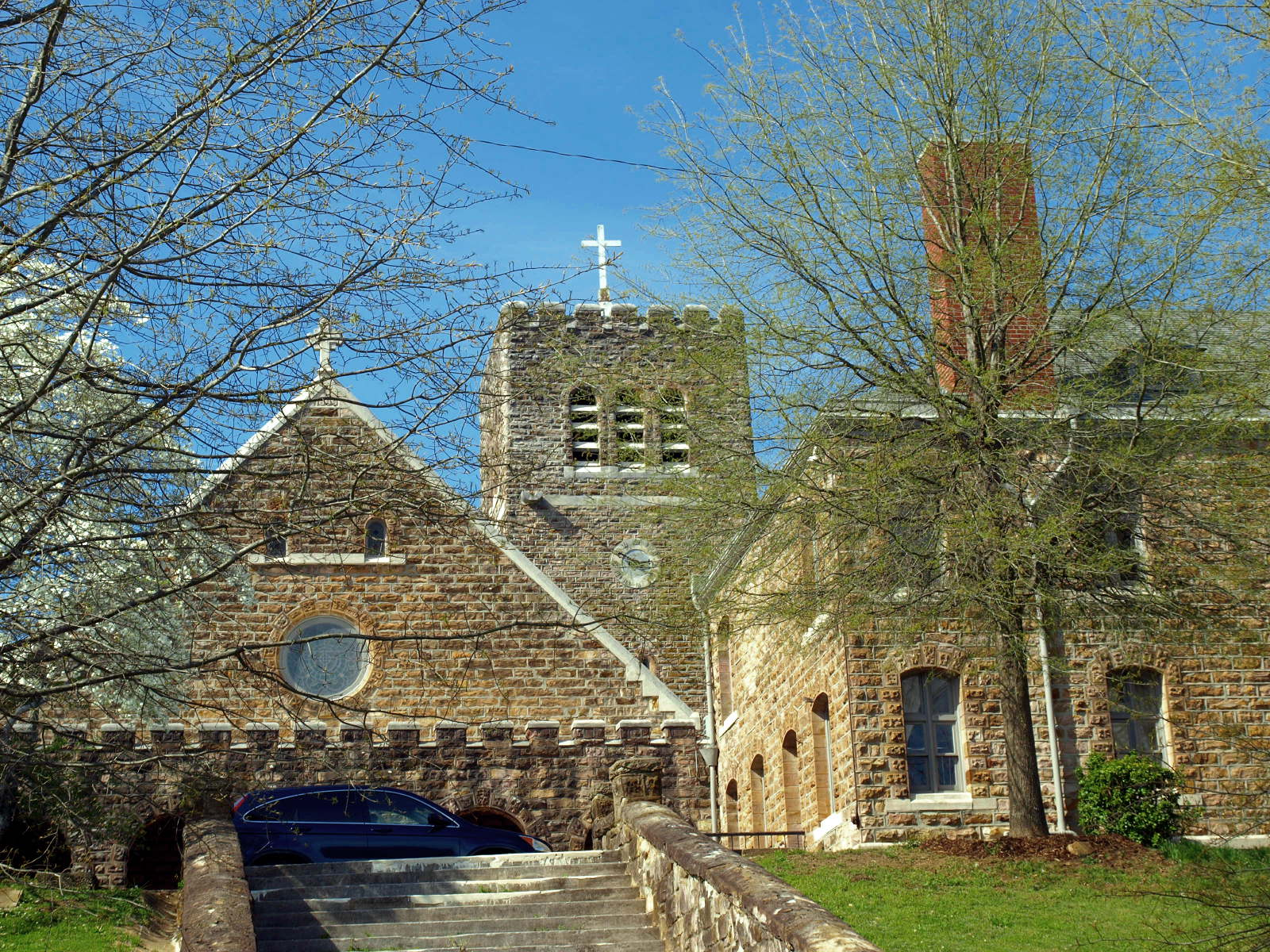 St. Michael and All Angels Episcopal Church in Anniston, Alabama, listed on the National Register of Historic Places